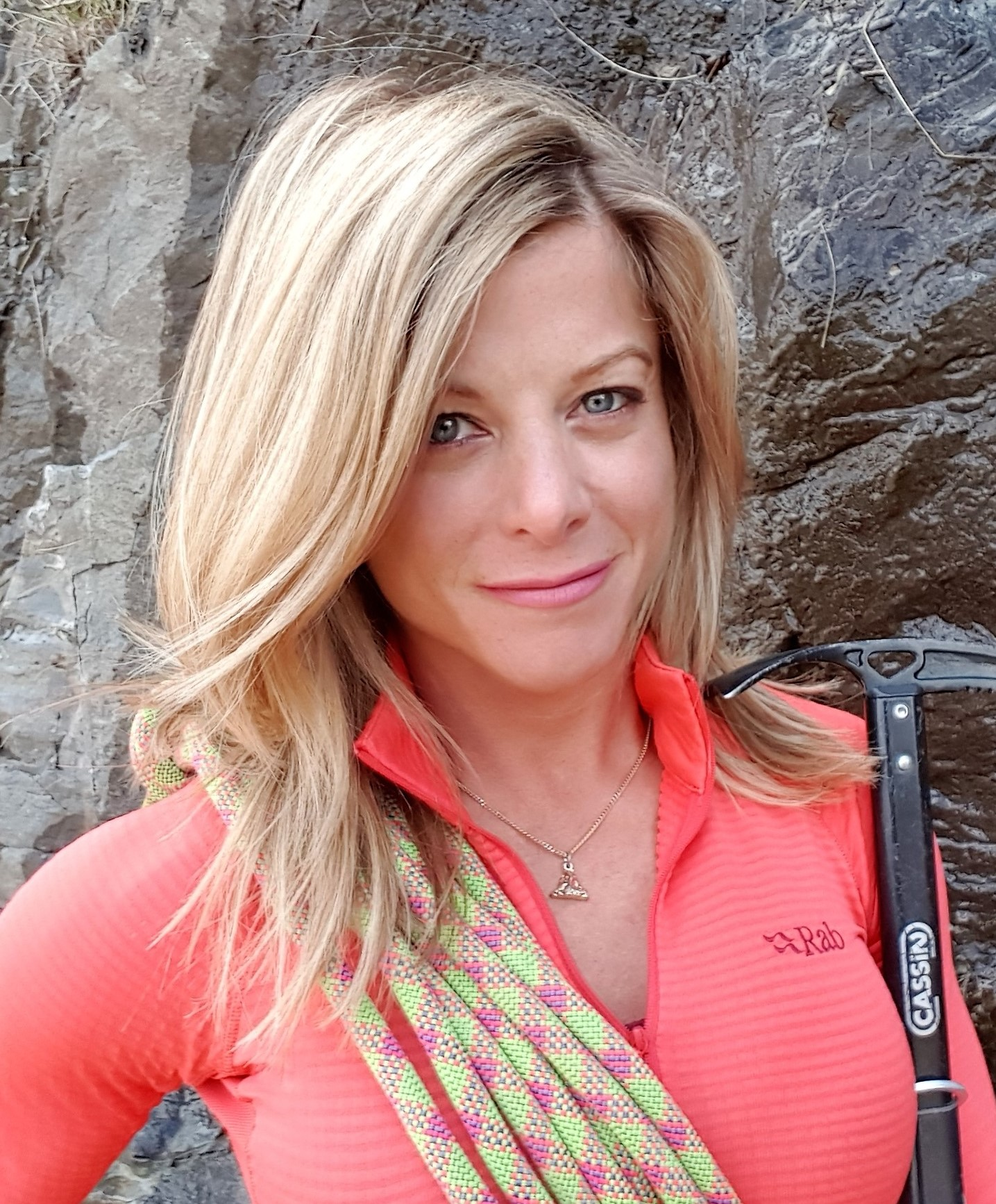 Self-portrait of the Canadian mountaineer Monique Richard in May 2019.